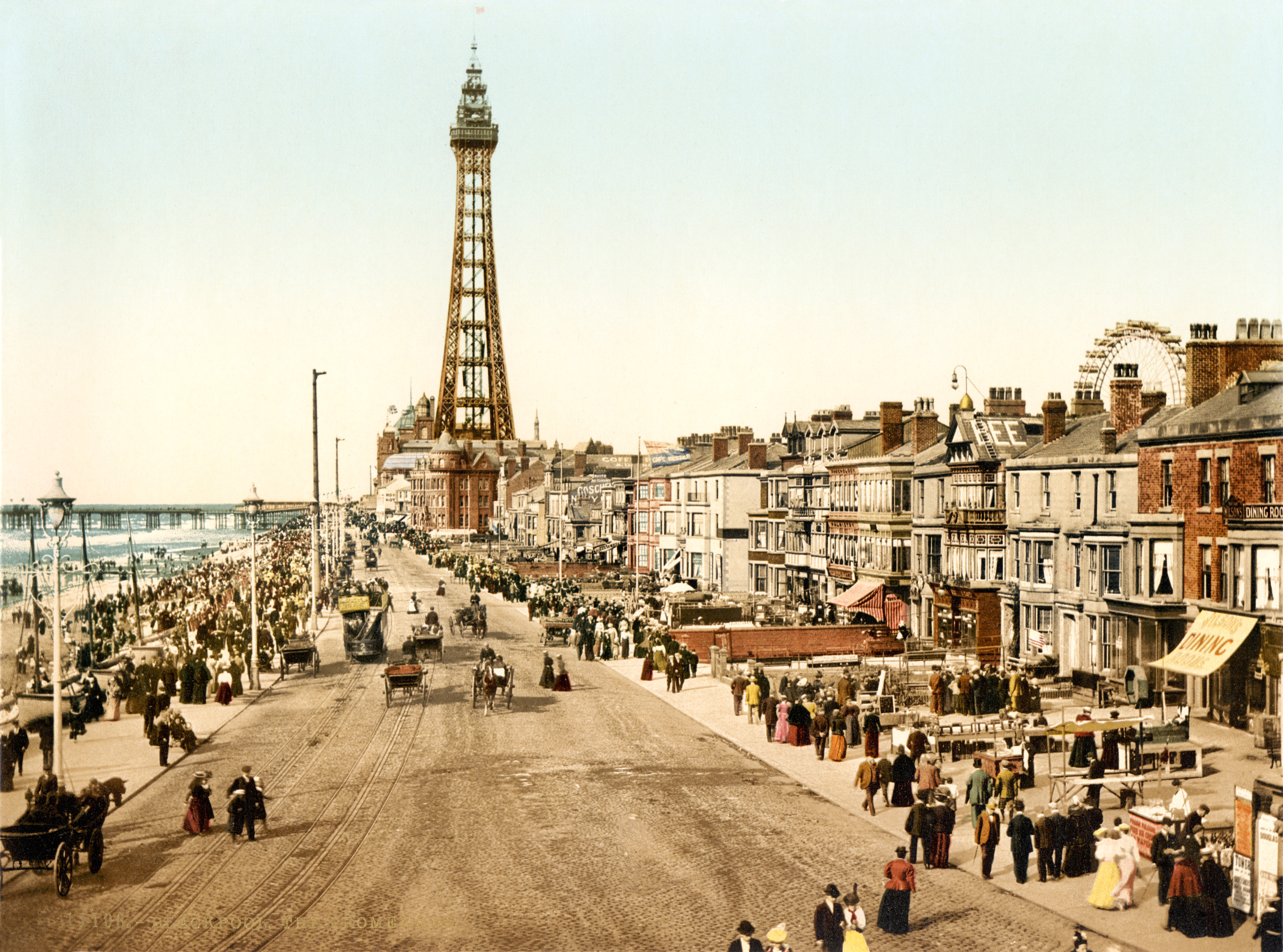 11103. Blackpool, the promenade.